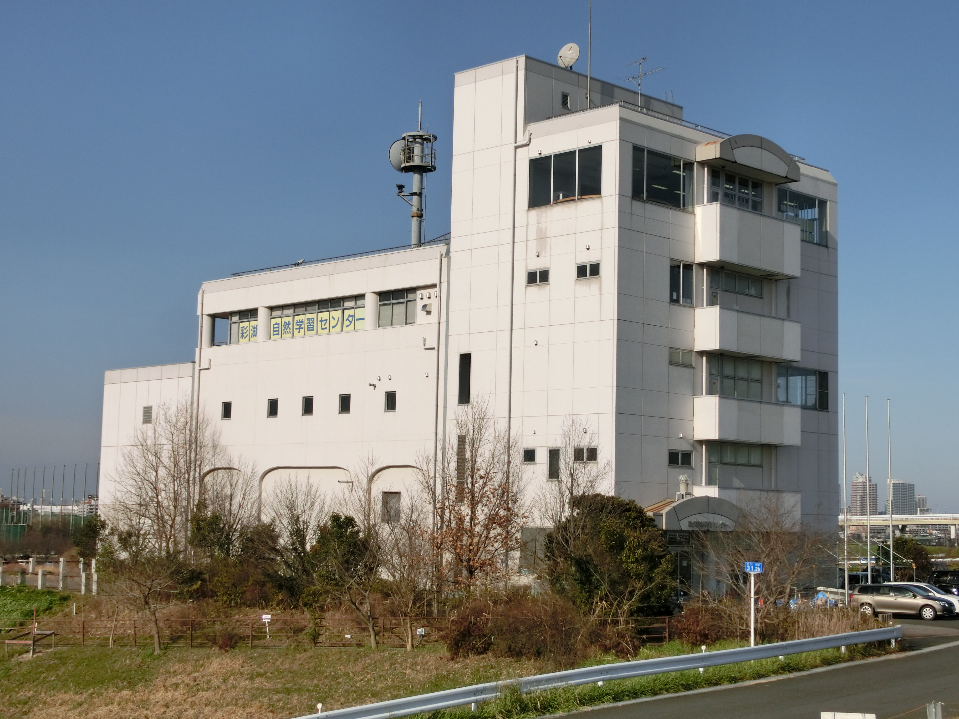 Saiko Nature Study Center